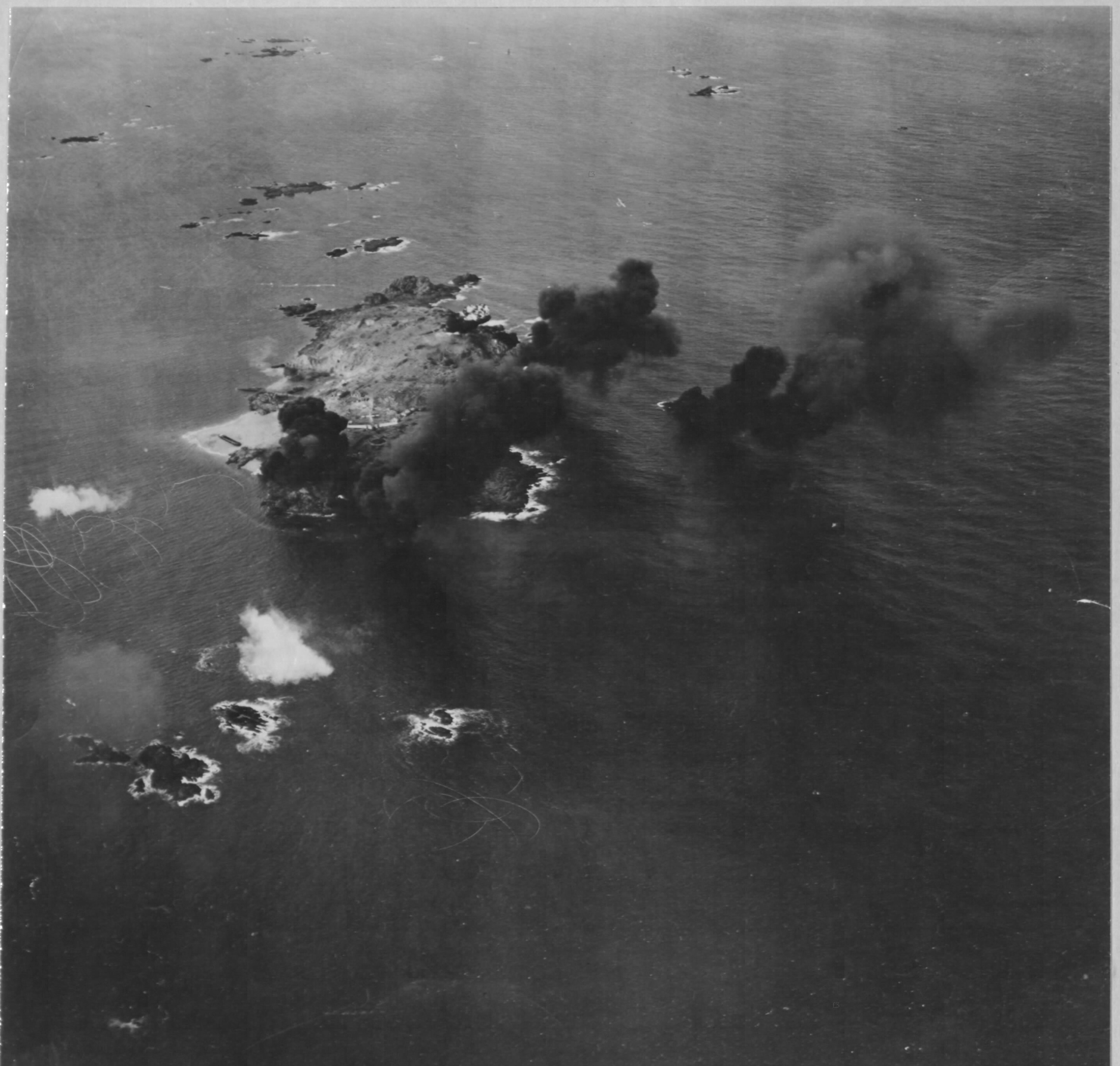 A 9th AF tactical reconnaissance plane flies over Cézembre island (off Saint Malo, Britanny, France) to witness the damage caused by bombings (August 1944).